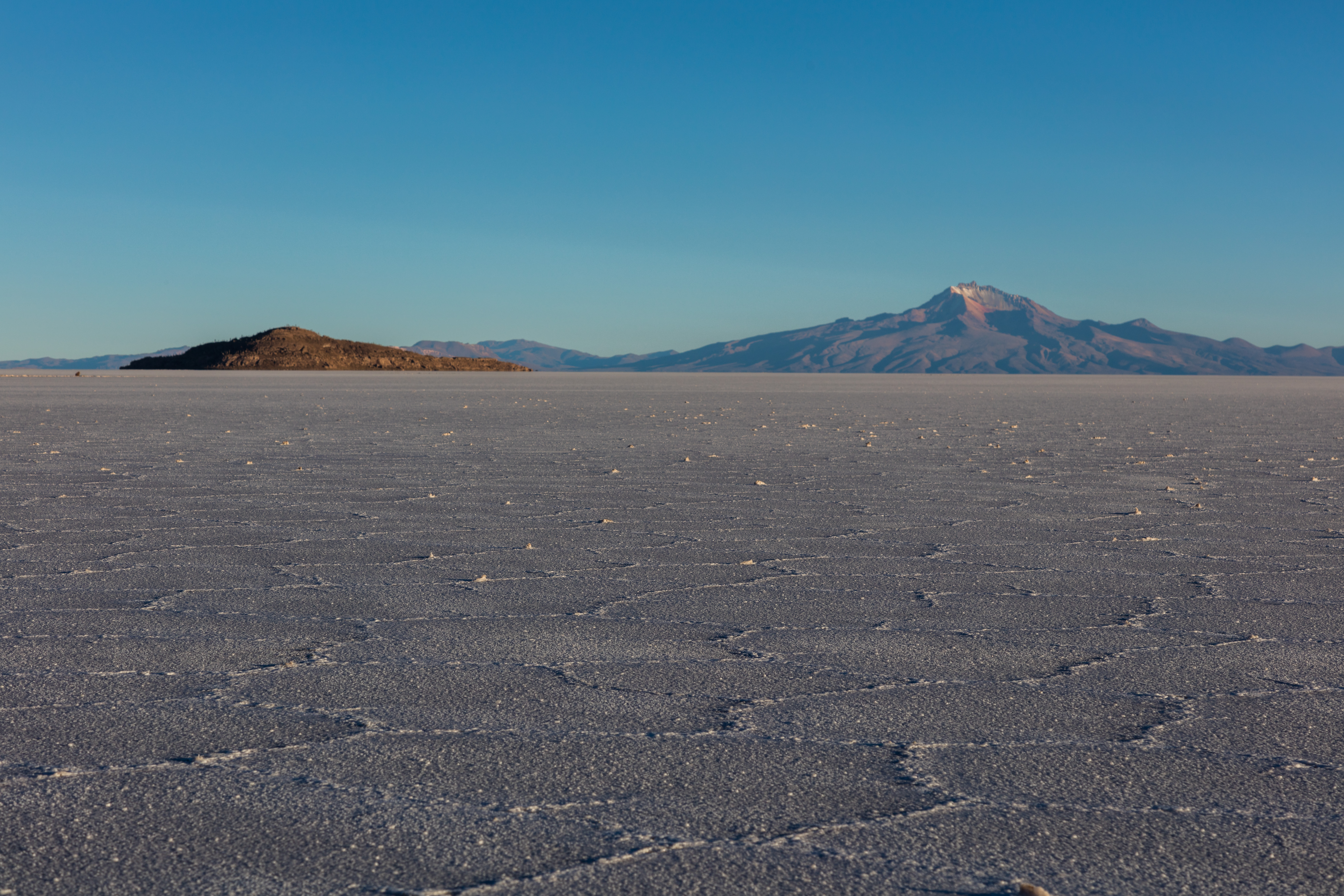 Uyuni salt flat, Bolivia